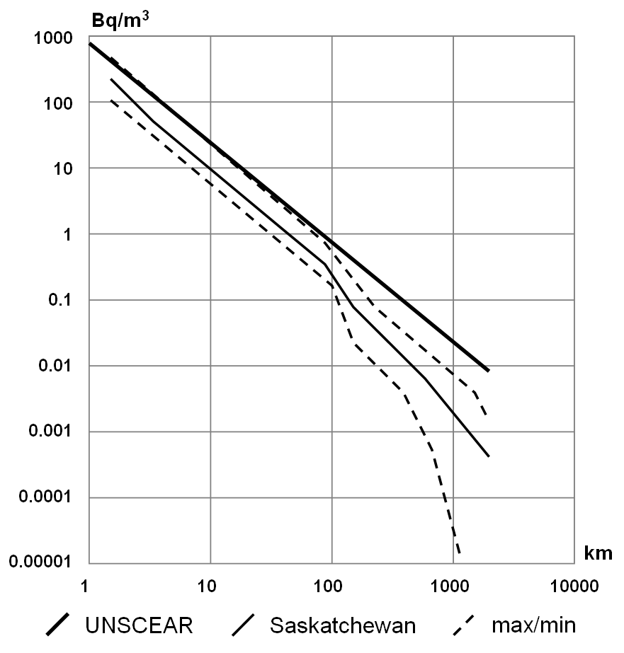 Estimates of radon concentrations at different distances for a Northern Saskatchewan site compared to the UNSCEAR standard model for a uranium mine. Data according to IAEA: Impact of new environmental and safety regulations on uranium exploration, mining, milling and management of its waste. Vienna, 2001. Available at IAEA publications.